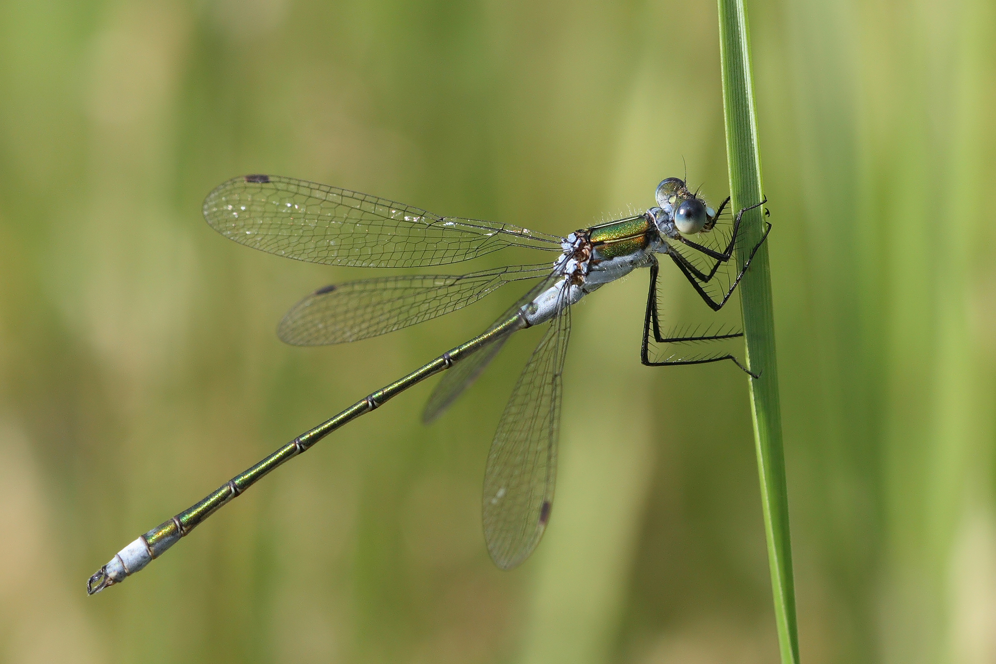 Male Emerald Damselfly (Lestes sponsa) in the Ahlenmoor, a peatland in northern Lower Saxony, Germany.